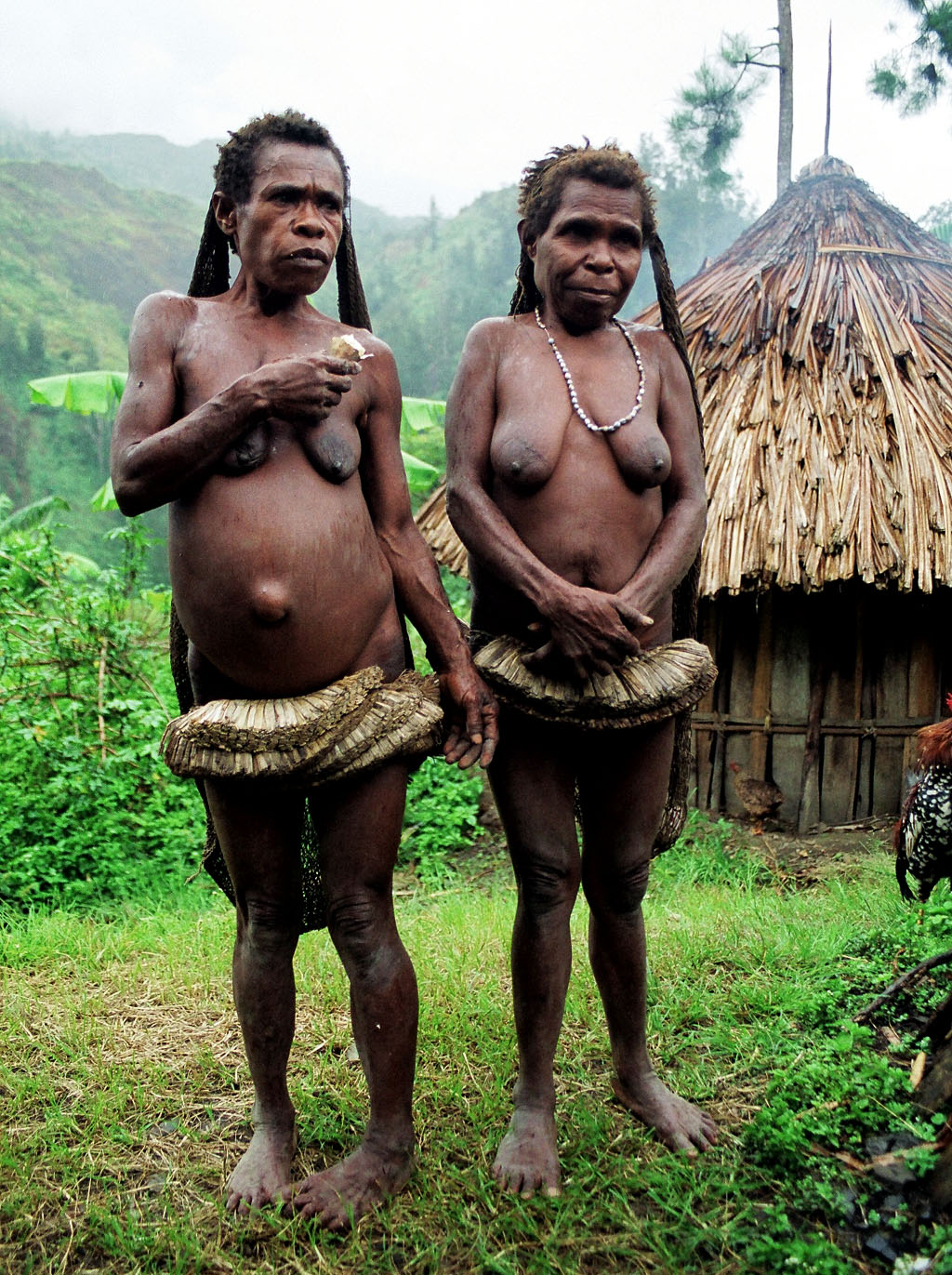 Yali women in the Indonesian province of "Papua"[1]